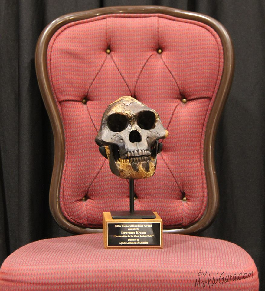 Dr. Lawrence Krauss' actual Richard Dawkins award, given to him by Mark W. Gura and Melissa Pugh of the Atheist Alliance of America at the Reason Rally 2016 in Washington D.C.